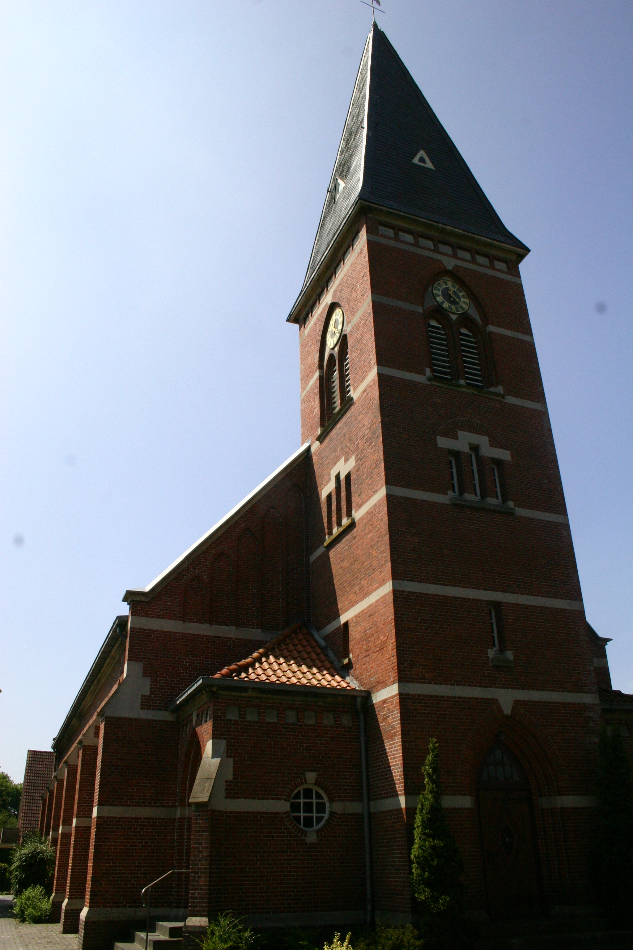 Historic church in Möhlenwarf, district of Leer, East Frisia, Germany